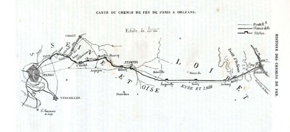 Map of the Paris to Orléans railway, at opening in 1843.